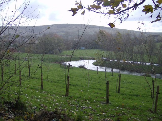 The River Jordan The one flowing through Preston of course. This is a popular walk between Preston and Sutton Poyntz. On a very blustery day I was lucky with the weather, but two minutes after taking this photo the hail stones struck. Where is the shelter? Exactly.